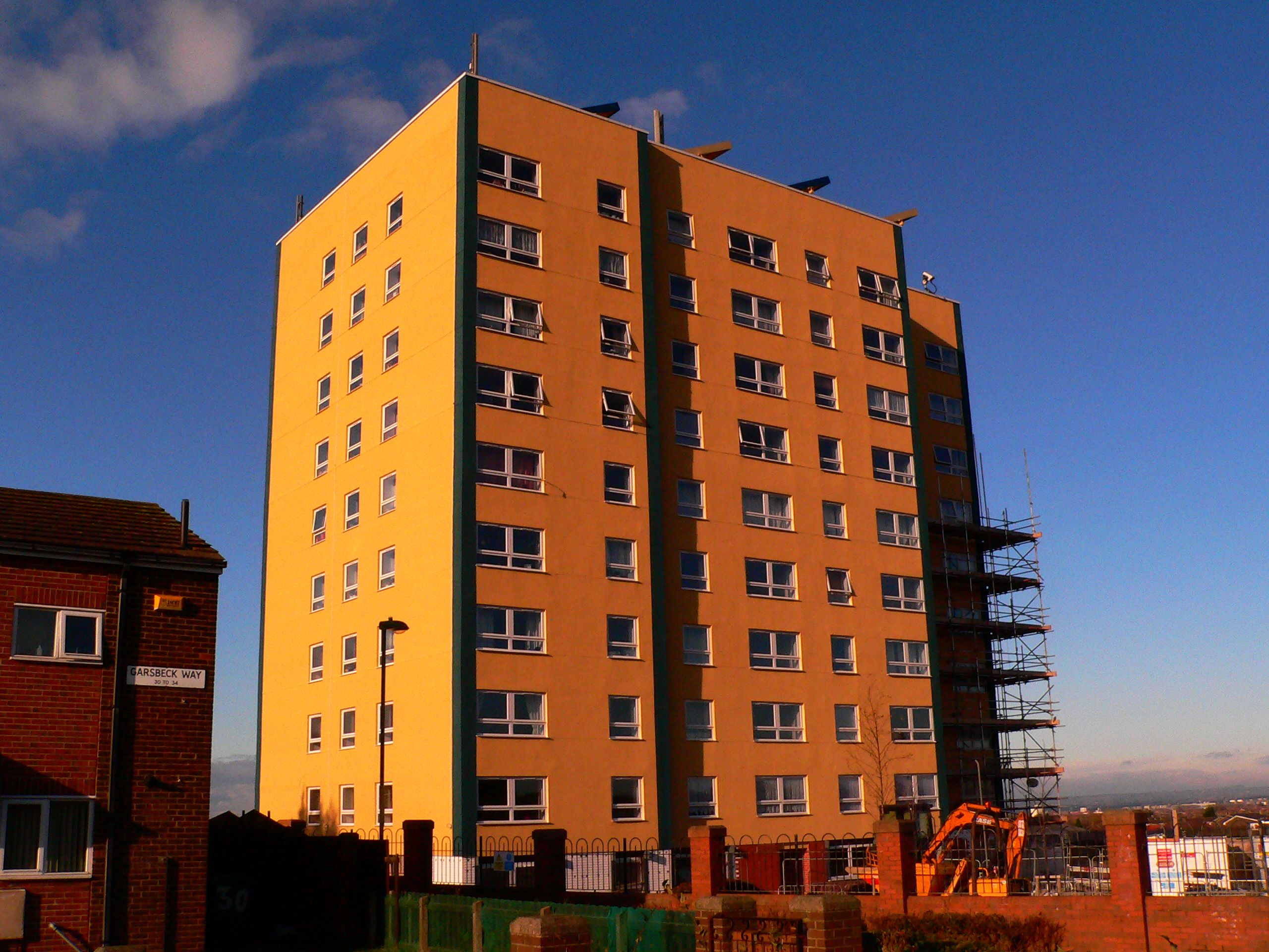 Spencerbck House: A 'Coast and Country' owned social housing block of flats, after the refurbishments of 2010. Solar panels can be seen on top.